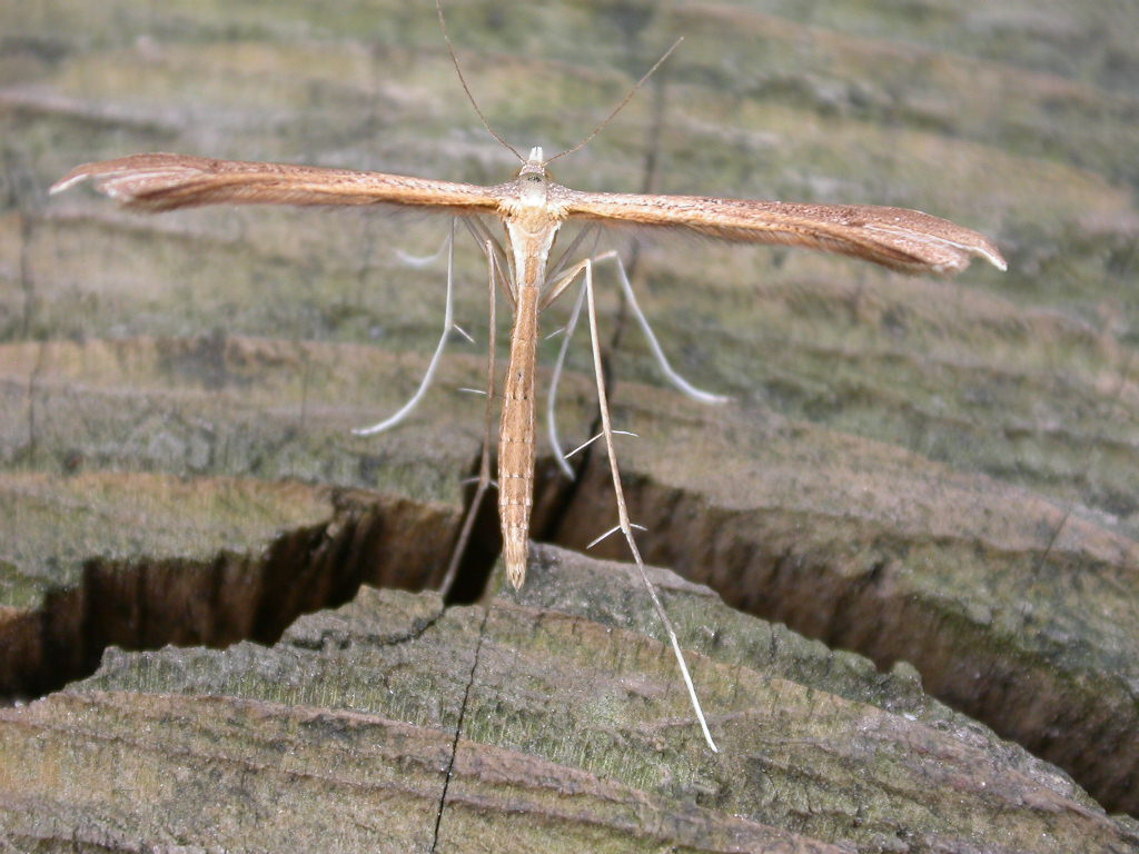 Stenoptilia bipunctidactyla, Hellerup, Denmark, 4 July 2005